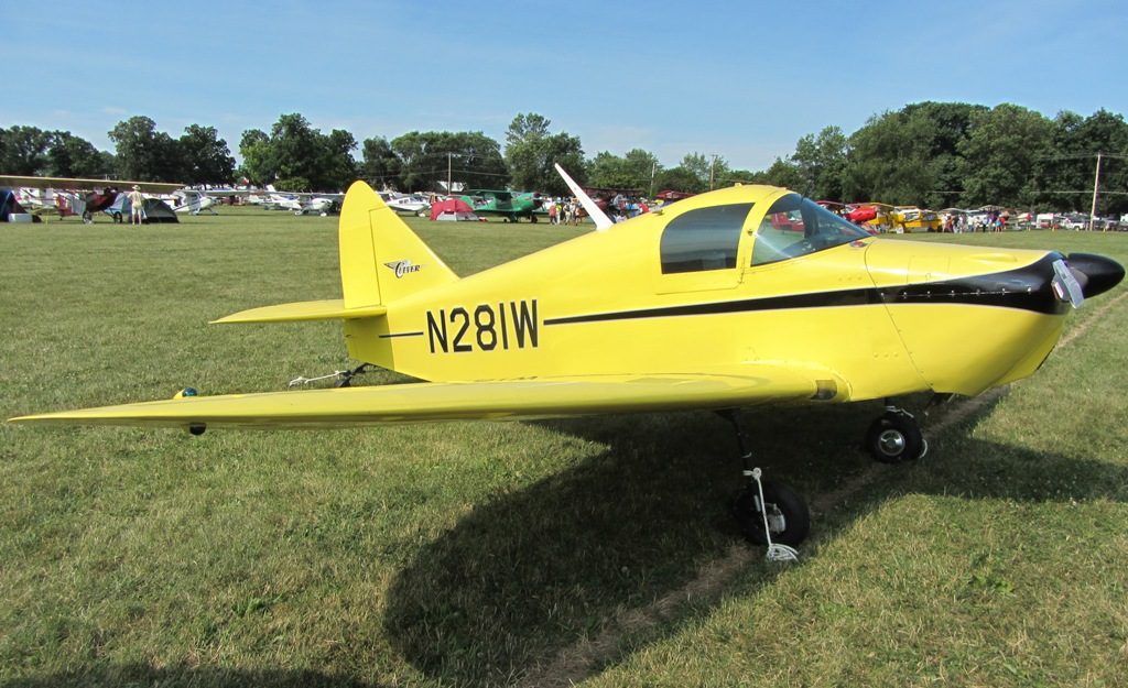 940 Culver Cadet